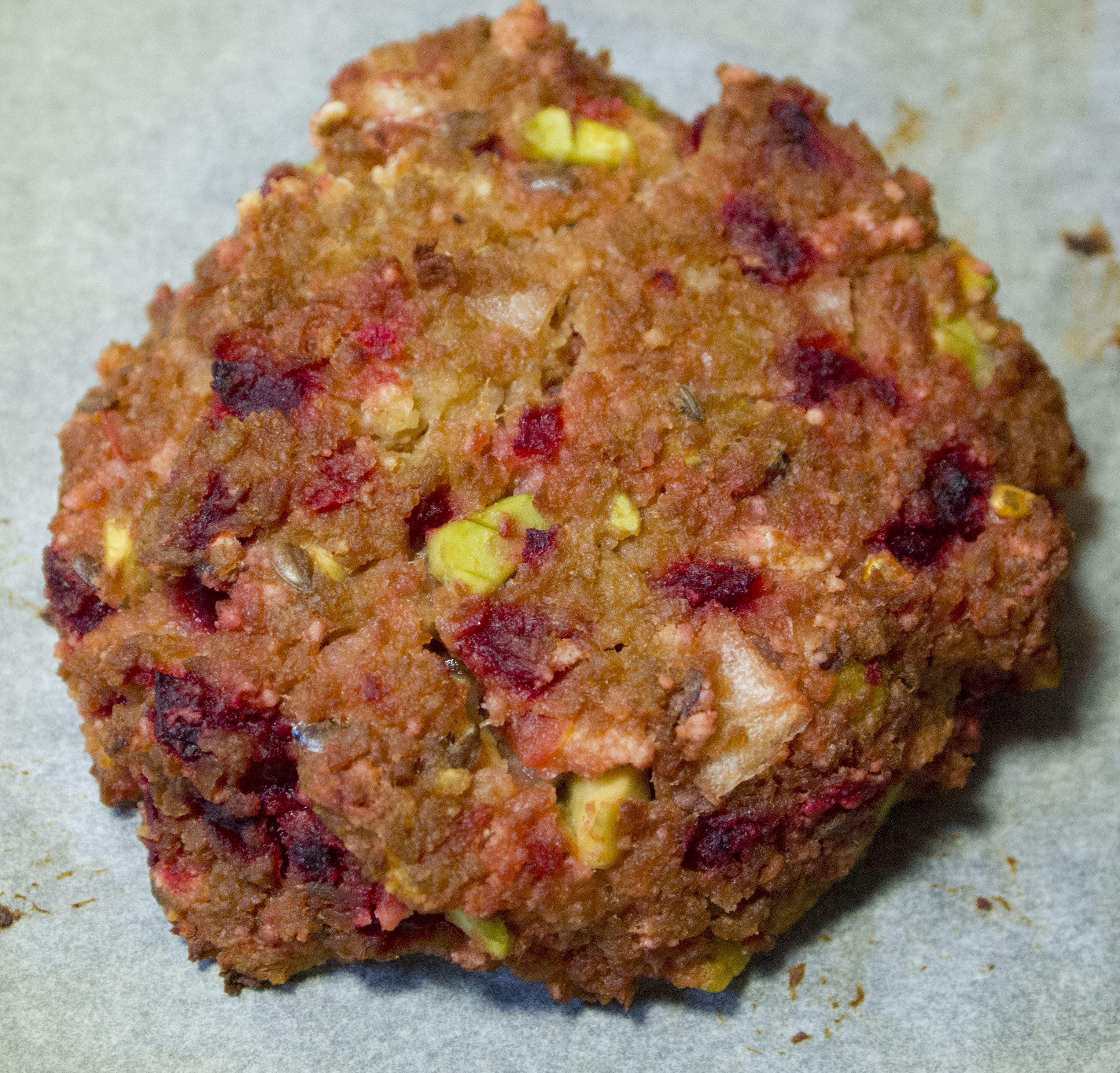 Soy crush steak toasted in oven. Made of soy crush, tomato, avocado and beetroot.